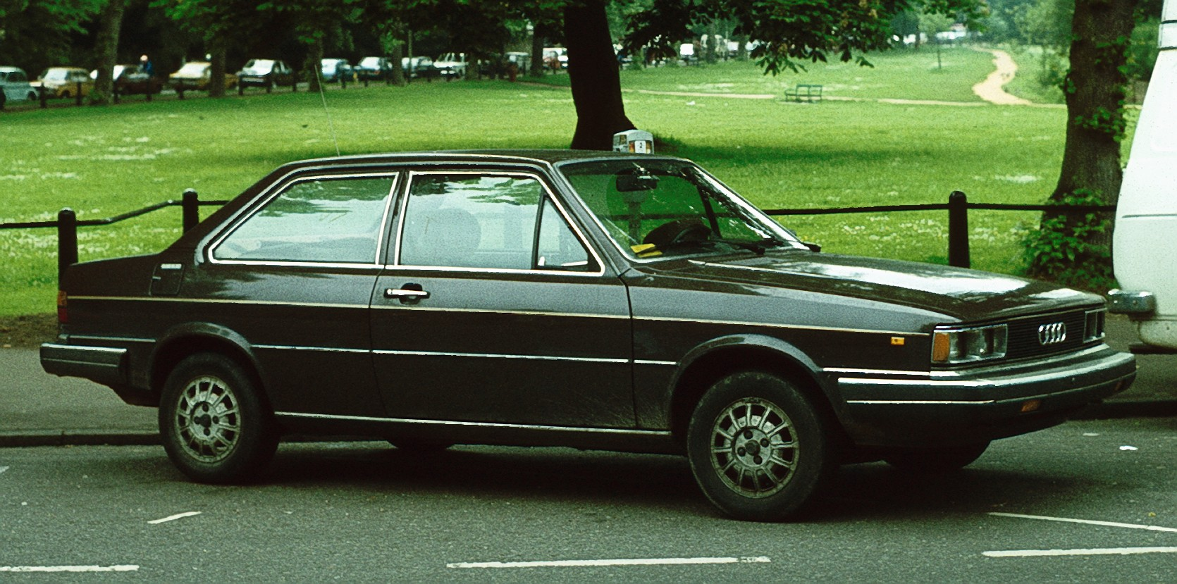 Audi 4000 / Audi 80 with only two doors. US Spec. Photographed in Cambridge